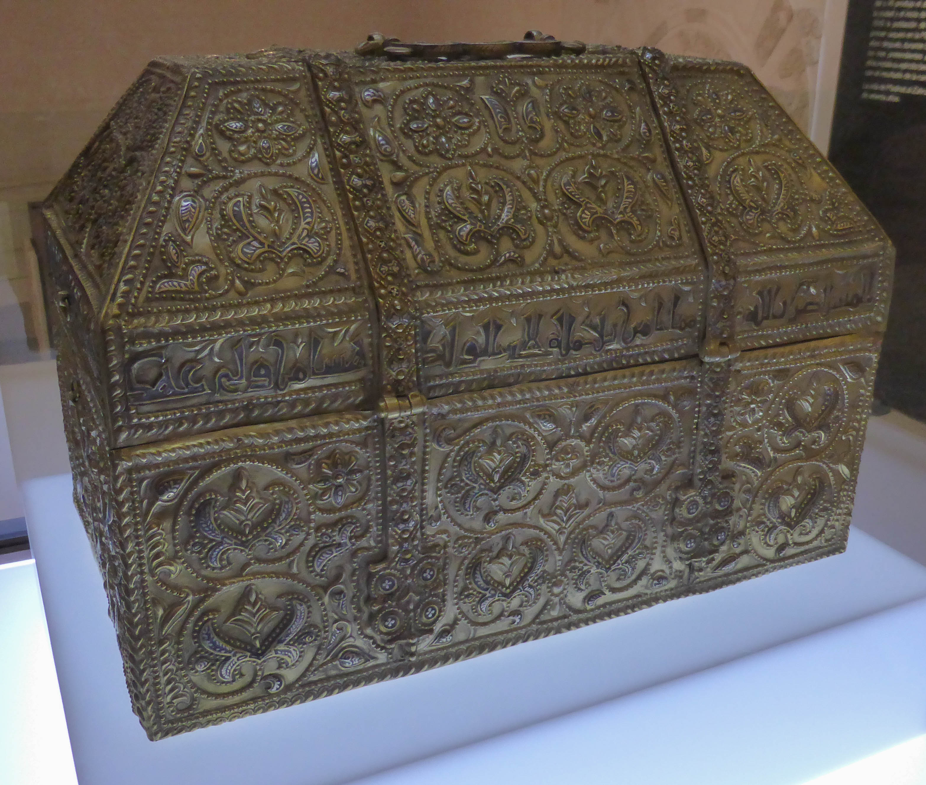 A copy of golden chest with relief, in the museum of the Medina Azahara in Córdoba, Spain (original in Cathedral of Girona, Spain)